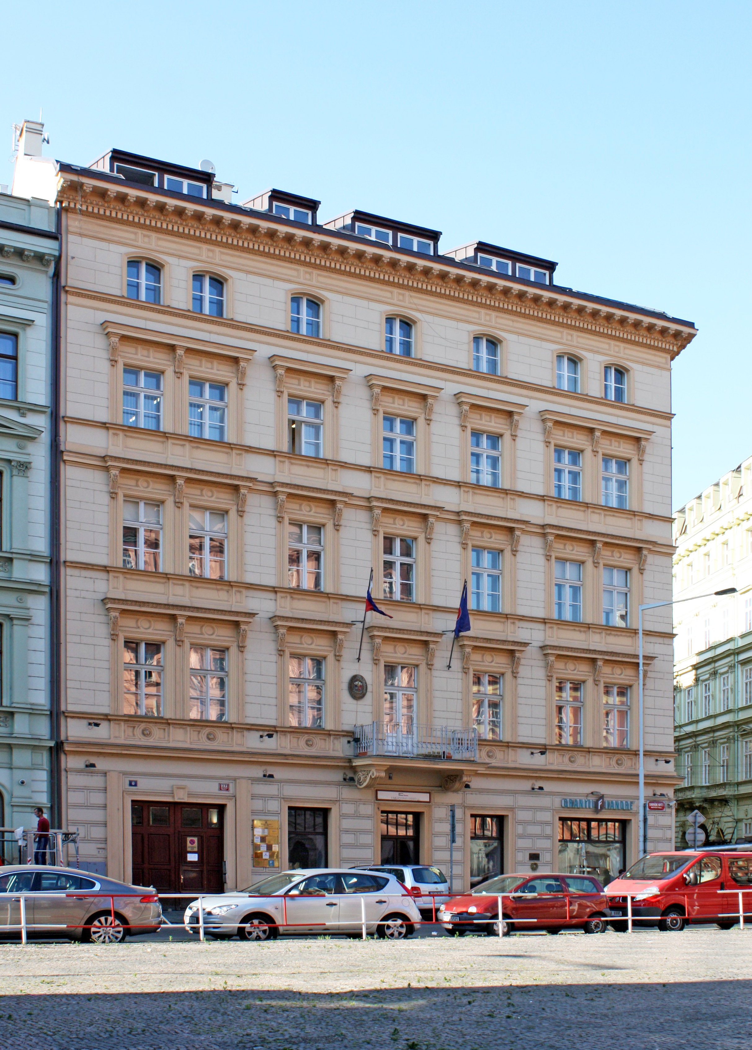 Senovážné náměstí 992/8, Prague - chancery of the Embassy of the Philippines.